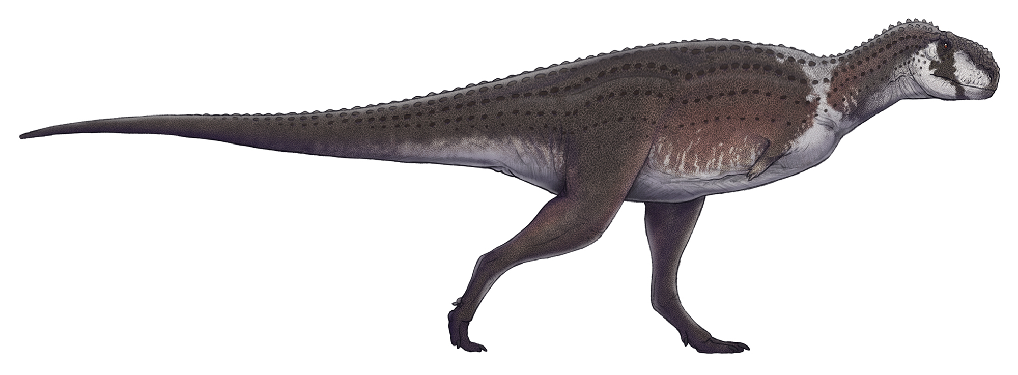 Life restoration of Kryptops palaios